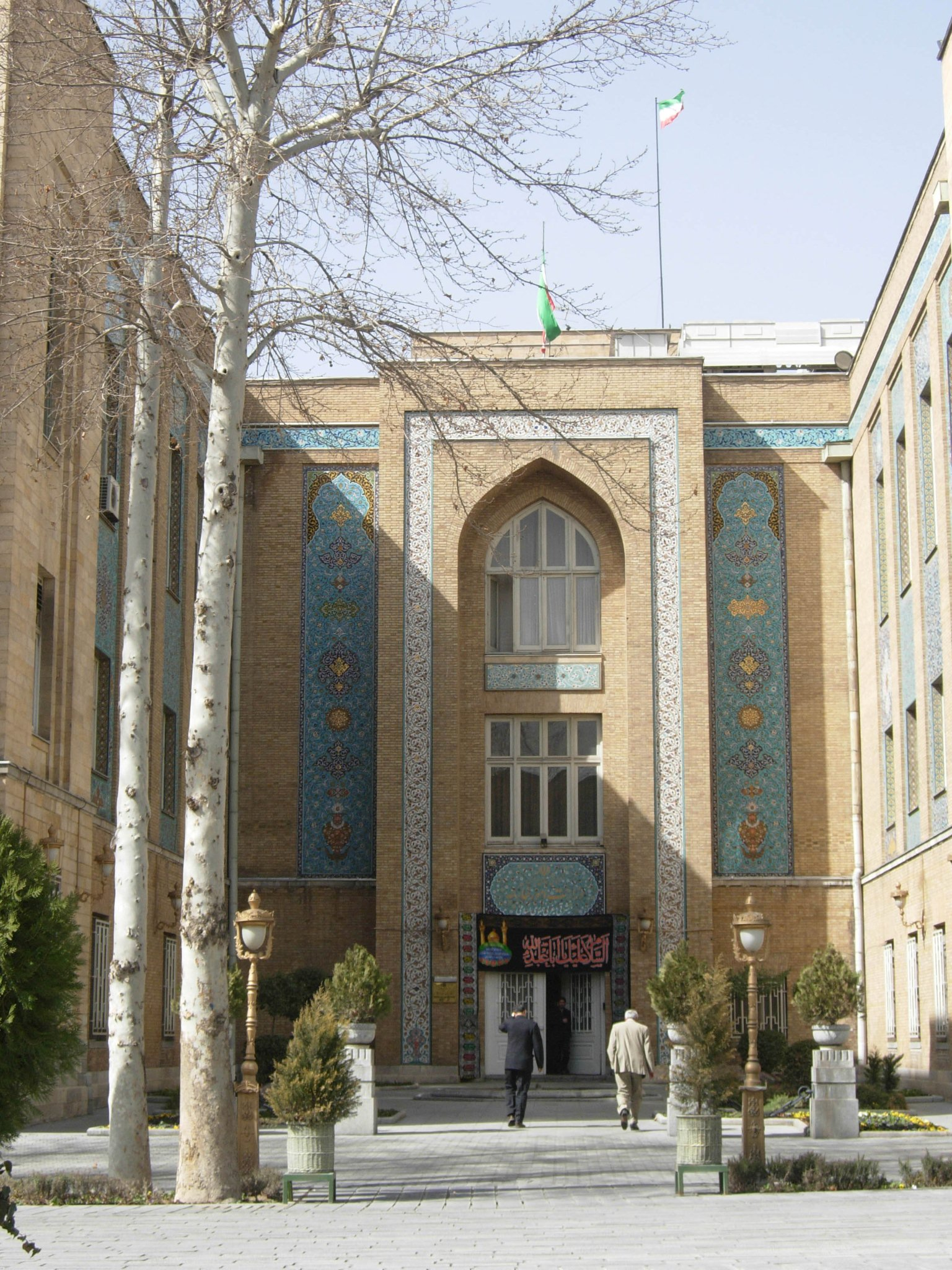 The main building of Foreign Affairs Ministry of Iran